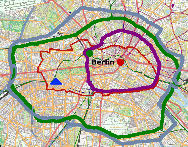 inner city areas of Berlin